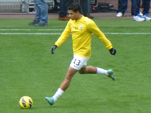 Jonathan Reis in GelreDome prior to the football match Vitesse vs. FC Twente